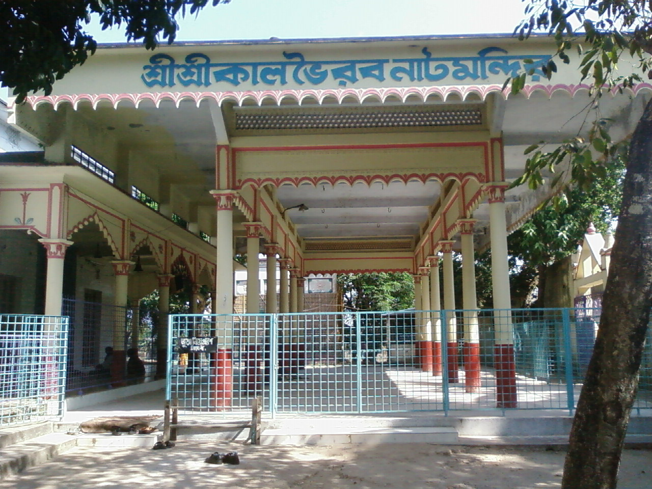 Naat Mondir of Kal Bhairab Temple